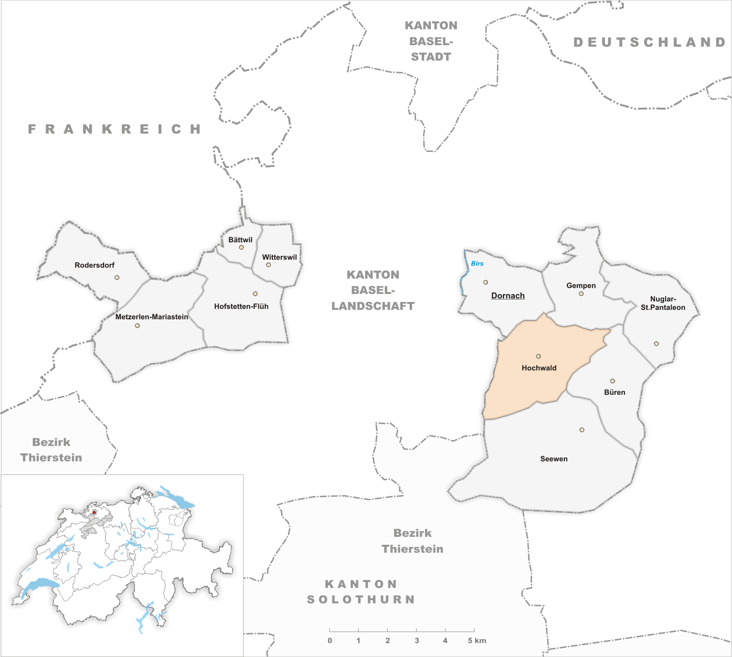 Municipality Hochwald